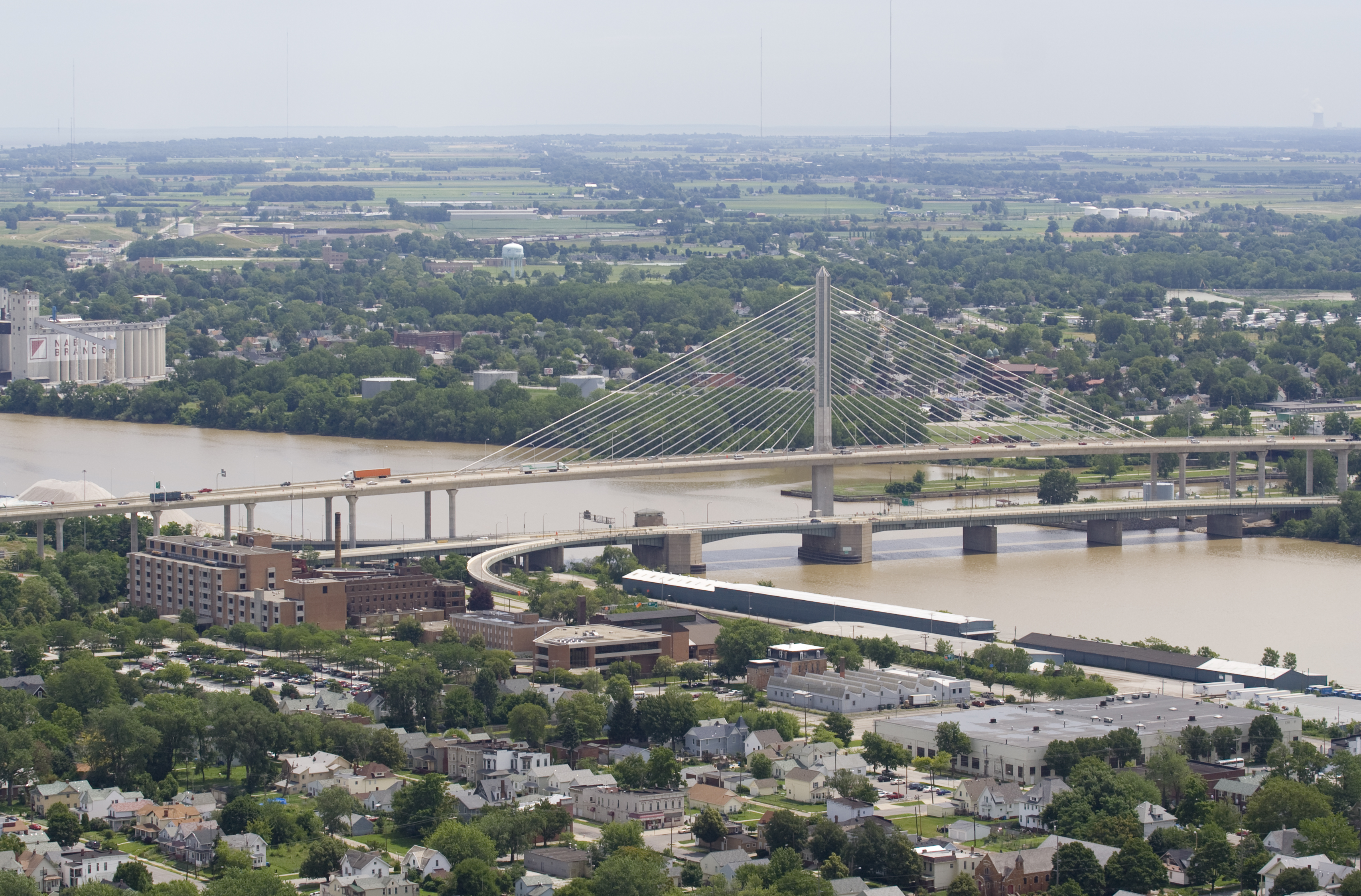 Veterans' Glass City Skyway, a 2007 cable-stayed bridge in Toledo, Ohio, with the Craig Memorial Bridge, a 1957 bascule bridge, in the foreground.